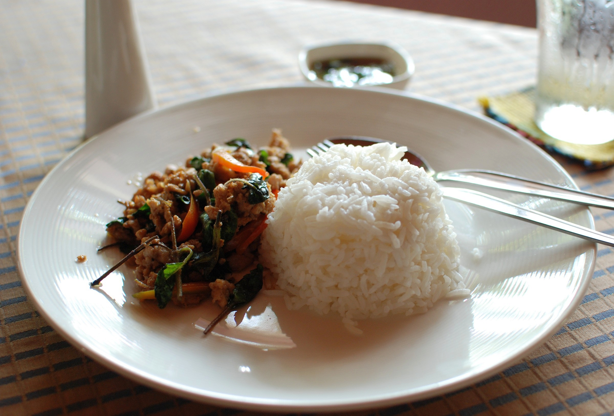 Phat kaphrao (Thai: ผัดกะเพรา): "fried with holy basil". In Thailand it is mostly ordered as (phat) kaphrao mu (holy basil with minced pork, as on the photo), as (phat) kaphrao kai (holy basil with minced chicken) or as (phat) kaphrao kung (holy basil with (chopped) prawns). The version with minced beef (phat kaphrao nuea) isn't eaten very often in Thailand. It is nearly always served together with phrik nam pla which is a mixture of fish sauce and lime juice with chopped chillies and sliced garlic. The basic ingredients for kaphrao mu are: minced pork, holy basil, sliced or chopped garlic, chillies (a modern version is to use paprika if you do not want to make it spicy), soy sauce and fish sauce. The photo shows kaphrao mu rat khao: together with rice on one plate. It is also often eaten as phat kaphrao mu/kai/kung rat khao khai dao, which then will feature a fried egg "sunny side up" on the side.